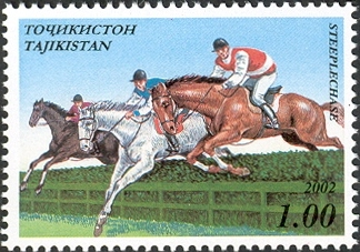 Stamps of Tajikistan